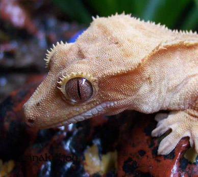 Close-up view of head of a gecko Rhacodactylus ciliatus (orange phase).